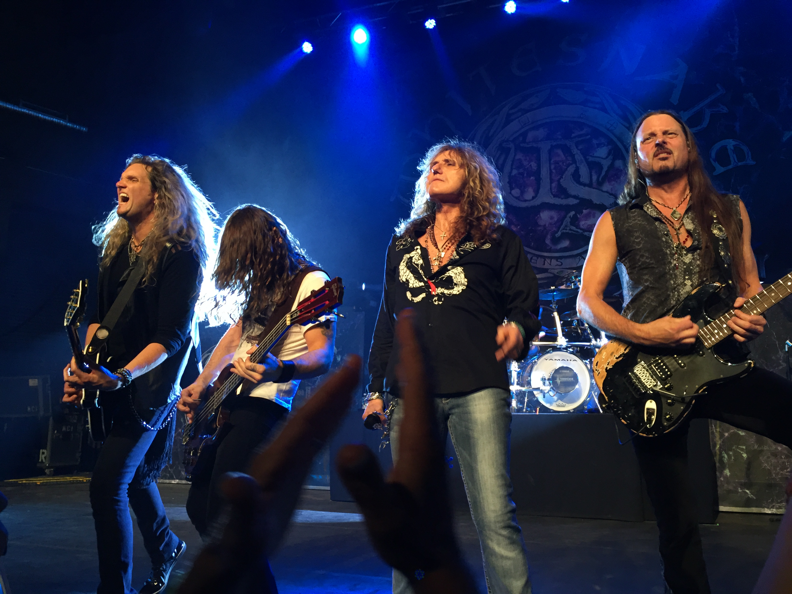 Whitesnake live at College Street Music Hall in New Haven, Connecticut.